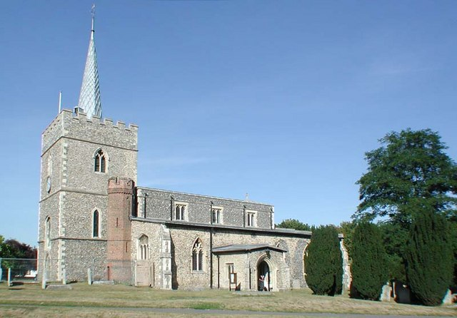 St Mary the Great, Sawbridgeworth, Herts